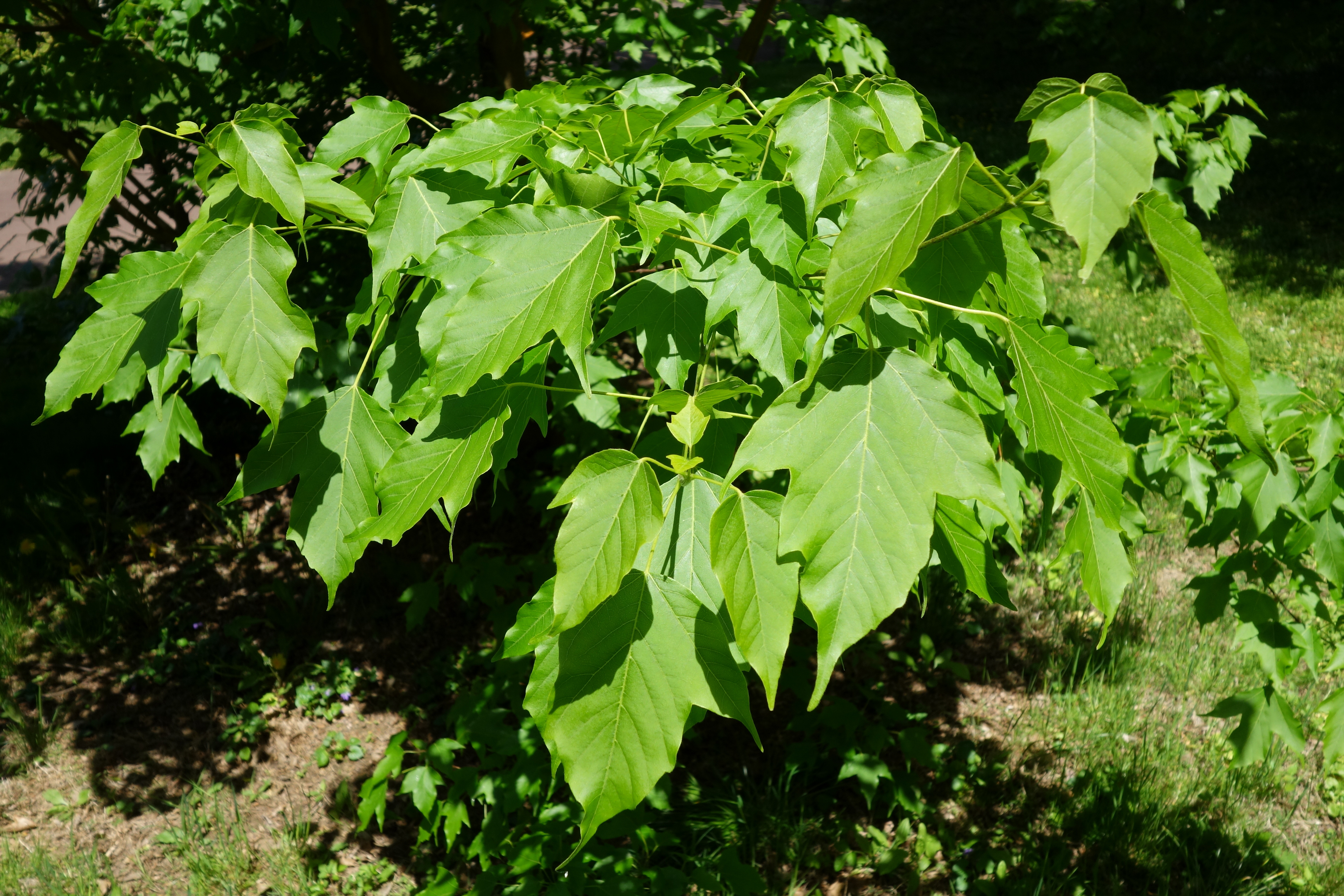 Botanical specimen in the Morris Arboretum, 100 East Northwestern Avenue, Chestnut Hill, Philadelphia, Pennsylvania, USA.